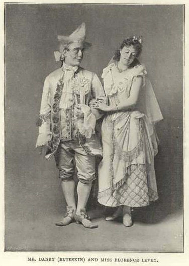 The actors Charles Danby and Florence Levey photographed in a review of 'Little Jack Sheppard' - 'The Sketch', 5 September 1894, pg. 285